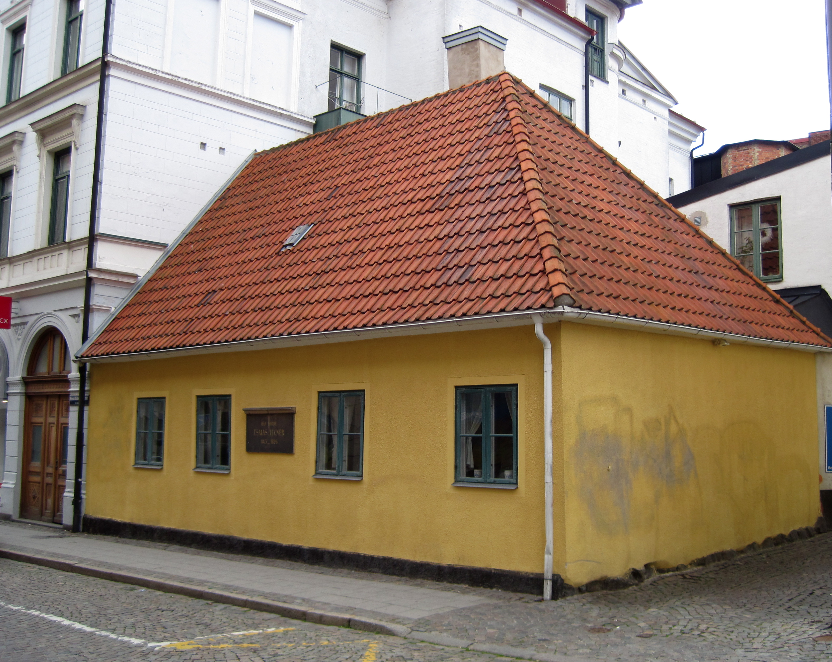 Tegnérmuseet, a museum in Lund dedicated to poet, professor and bishop Esaias Tegnér (1782-1846). The mmuseum is situated in the remains of Tegnérs home during the years 1813-1826.